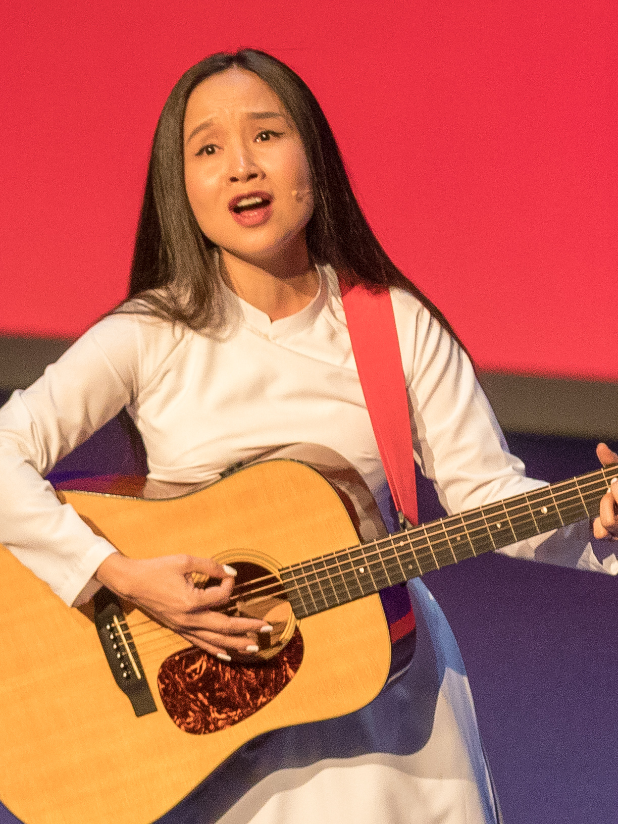 Mai Khoi at the 2018 Oslo Freedom Forum. The sessions where held in Det Norske Teater on 29 and 30. May 2018.